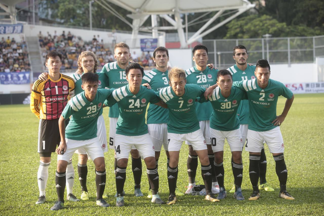 2017 HK Community Cup Eastern 90s jersey